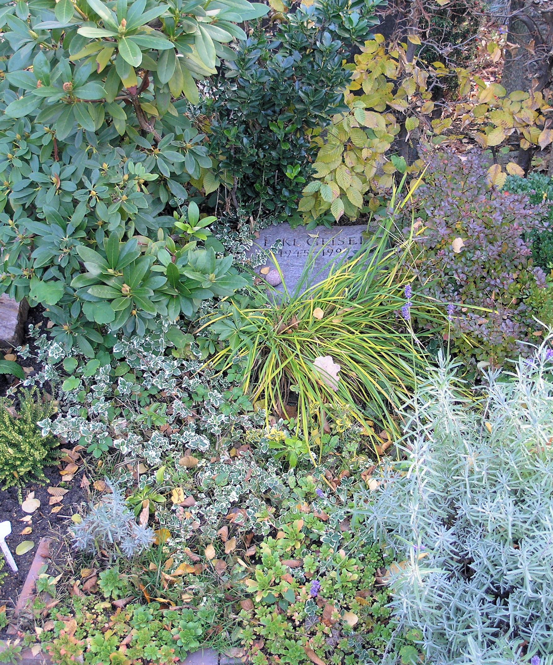 Graves, Eike Geisel, Stubenrauchstraße 43-45, Berlin-Friedenau, Germany Koordinate:52°28′33″N 13°19′22″E / 52.47583°N 13.32278°E